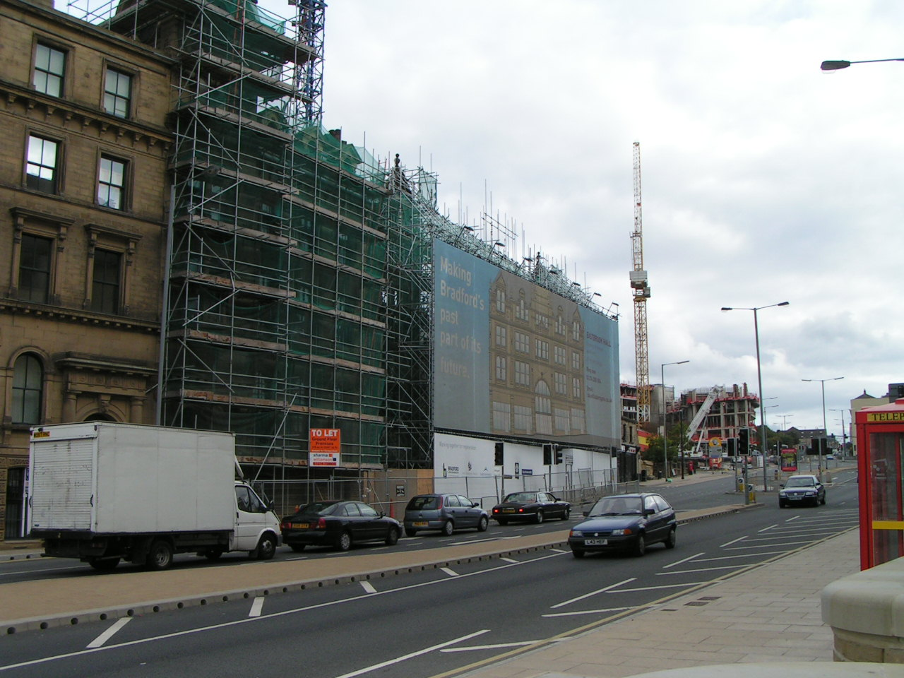 Image of Eastbrook Hall, Bradford